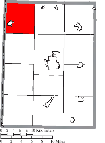 Map of the municipal and township boundaries of Preble County, Ohio, United States, as of the 2000 census, with the location of Jefferson Township highlighted. Township borders are shown only in unincorporated areas in order to differentiate incorporated and unincorporated areas more clearly.